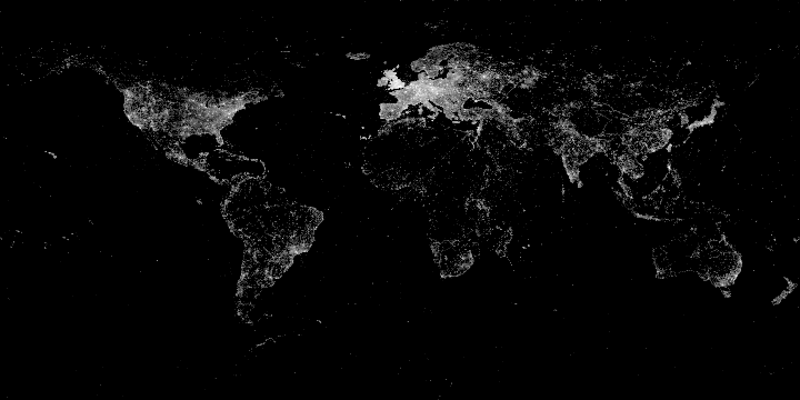 Geolocated images in Wikimedia Commons.